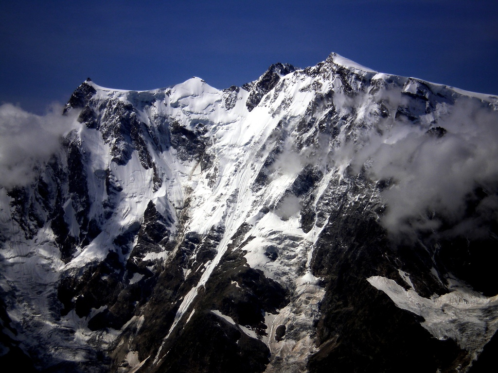 Monte Rosa (east wall), view from Monte Moro pass